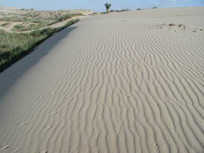 Donated by SPNI Ashdod filial site and Mr. Boaz Raanan.